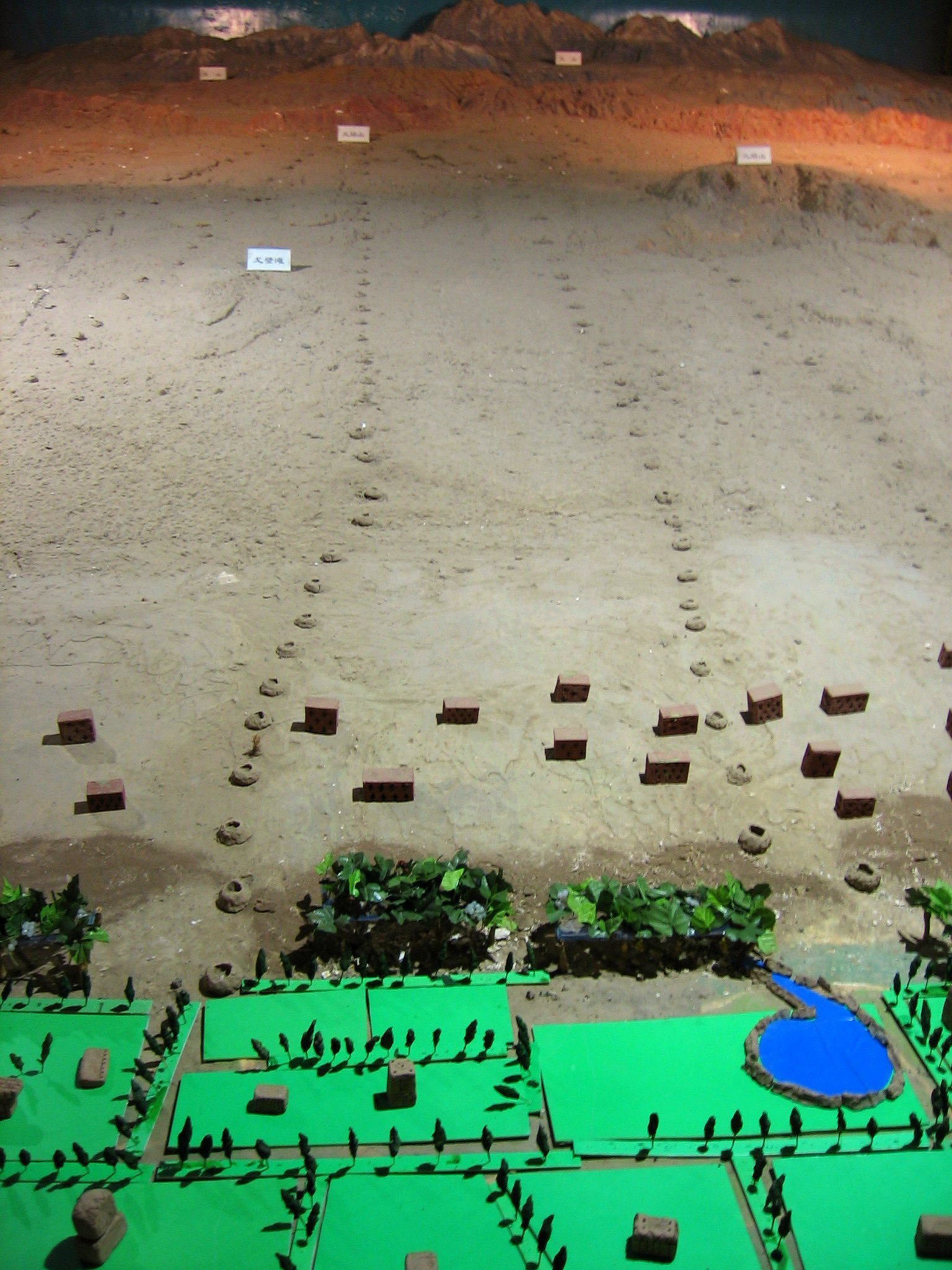 Karez: is the name commontly used in Central Asia for the irrigation system also known as Qanat. This scale model in a museum in Turfan shows how the water is collected from mountains and transported underground to agriculture fields.